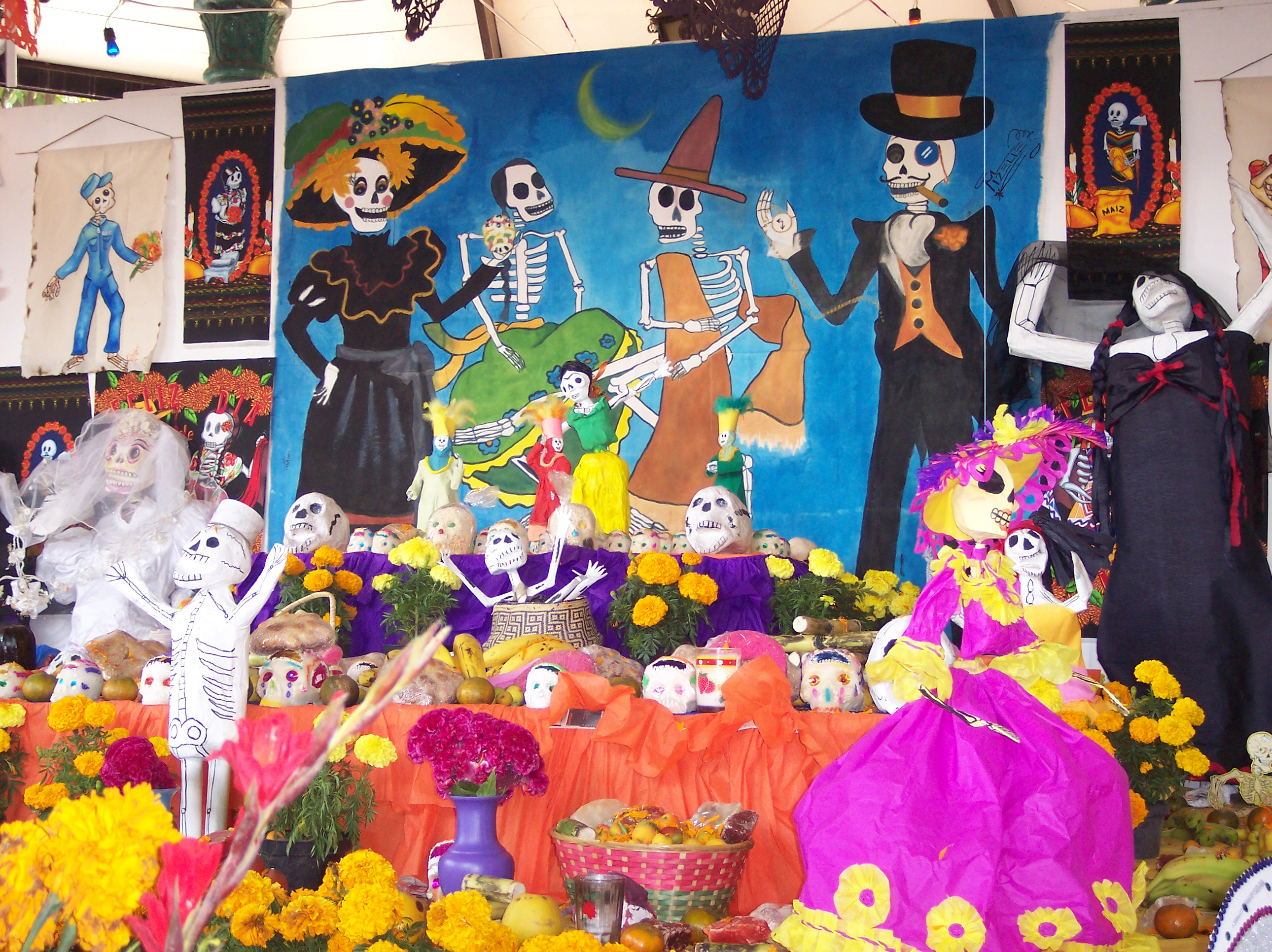 Photo taken in Xochimilco, D. F. Mexico. November the 2nd, Day of Deads, a tradicional celebration in Mexico.